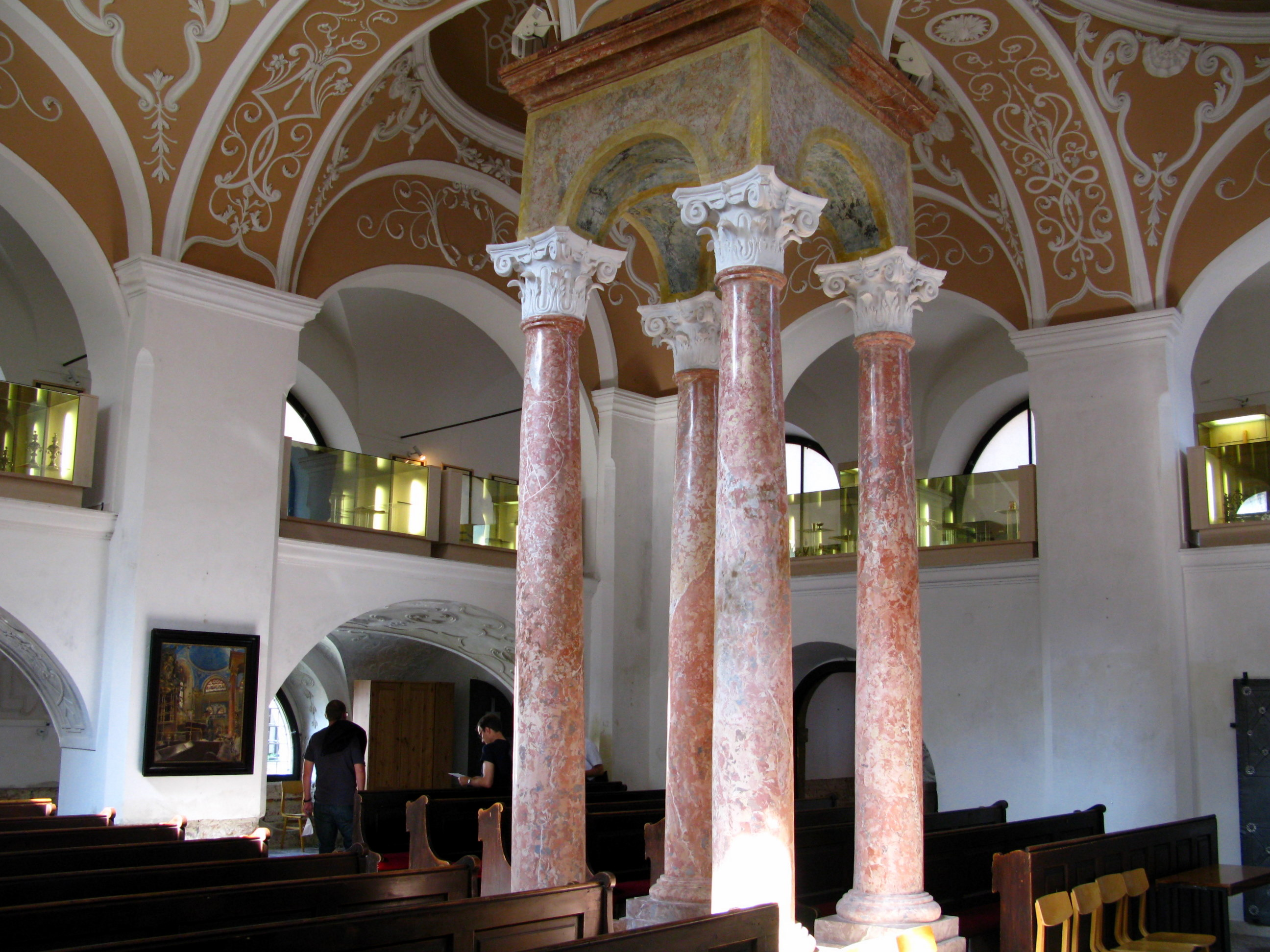 Upper Synagogue of the Jewish community in Mikulov in Moravia / Czech Republic / EU. Currently, the synagogue is a museum.